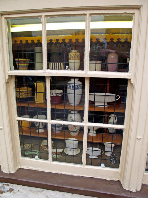 Hornsea Museum - Pottery Window, Hornsea, East Riding of Yorkshire, England.Hornsea Pottery was founded in 1949 and ceased trading in 2000.